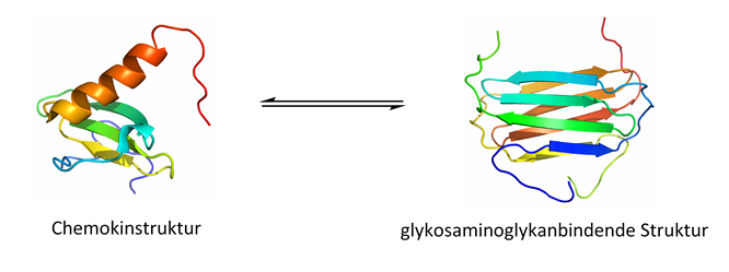 Conformations of lymphotactin